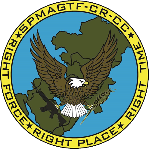 SPMAGTF-CR-CC logo